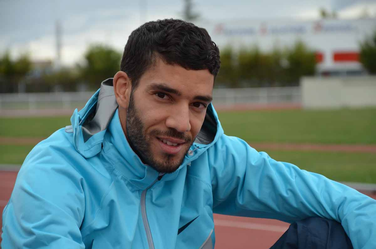 Mahiedine Mekhissi in stadium Georges Hébert